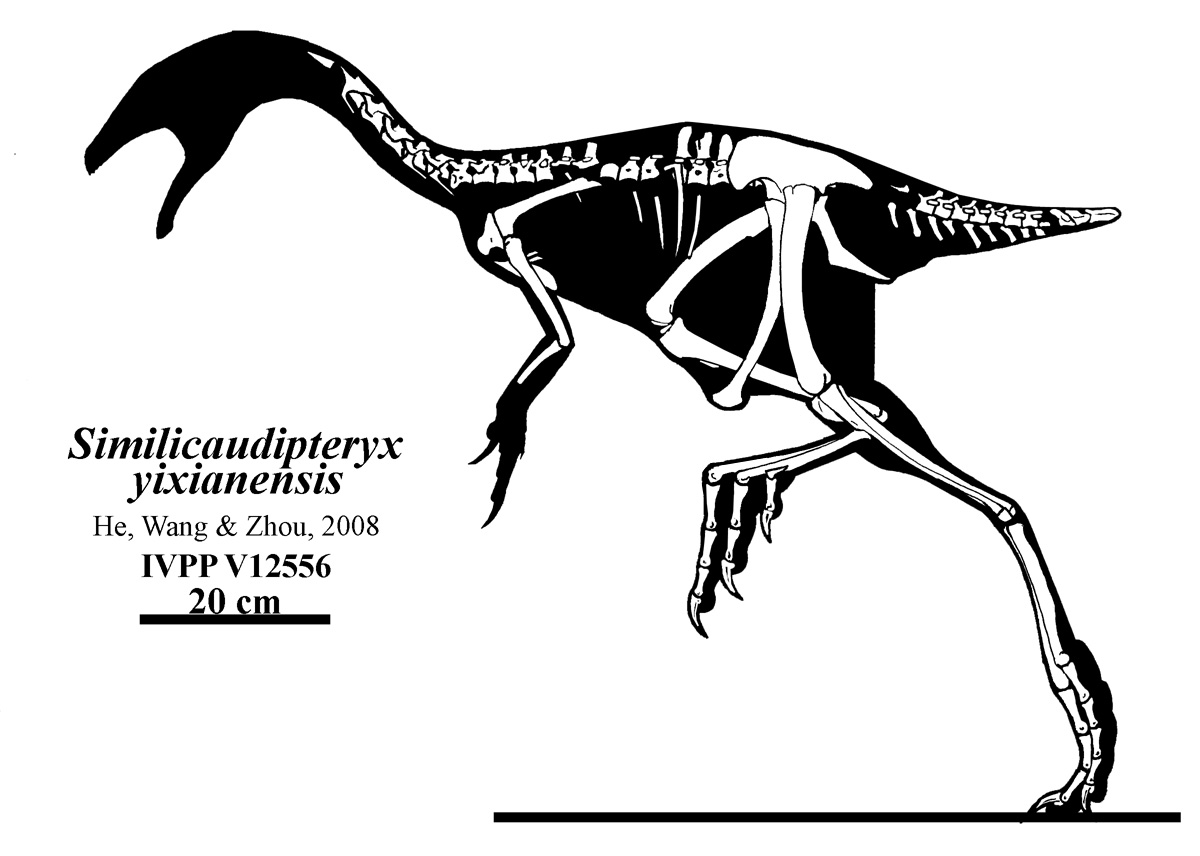 Skeletal reconstruction of Similicaudipteryx yixianensis.